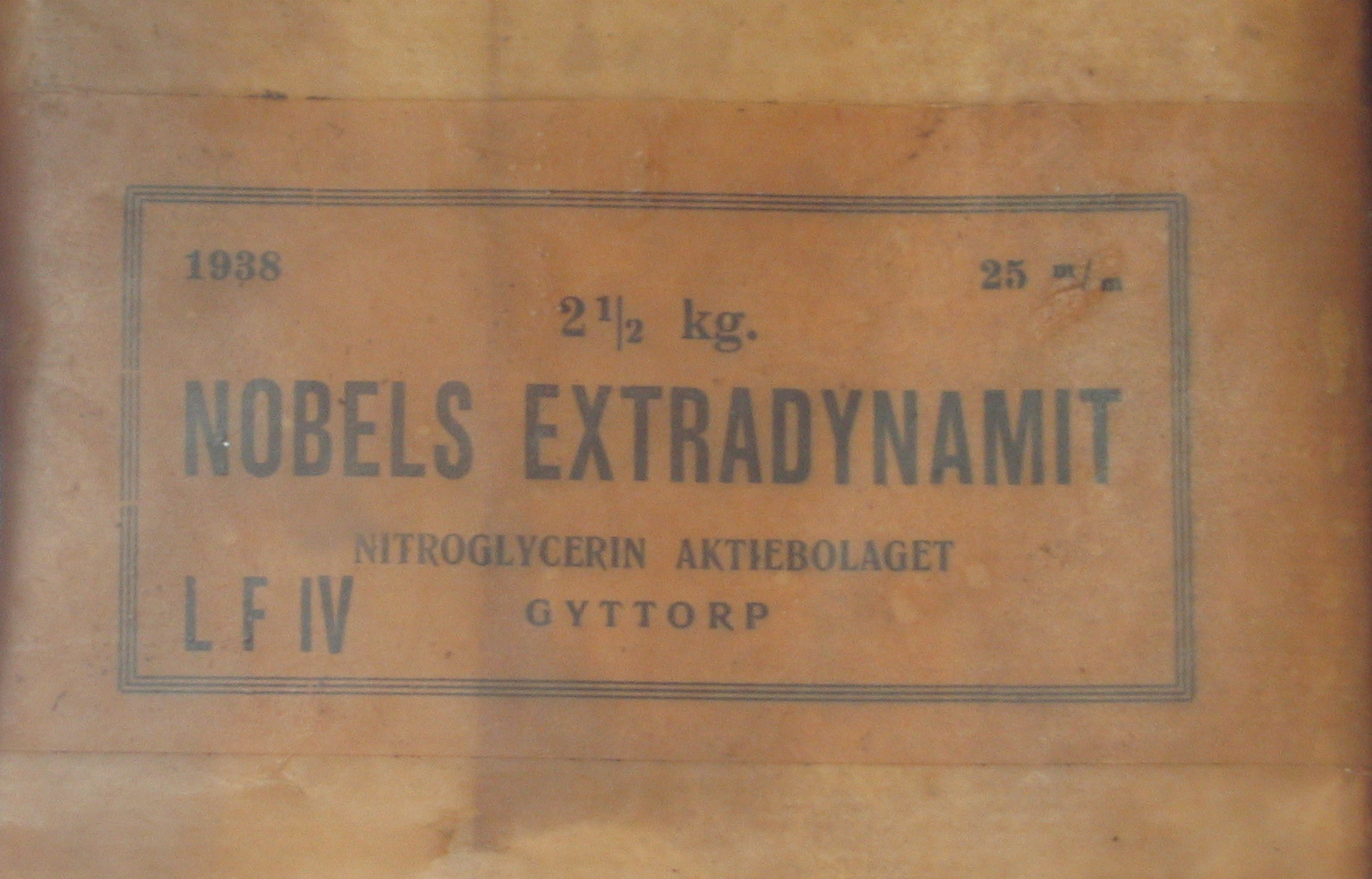 Label on a package of "Nobels Extradynamit" produced by Nitroglycerin Aktiebolaget in Gyttorp, marked 1938. Displayed in the Nobel museum at Björkborn, Karlskoga.